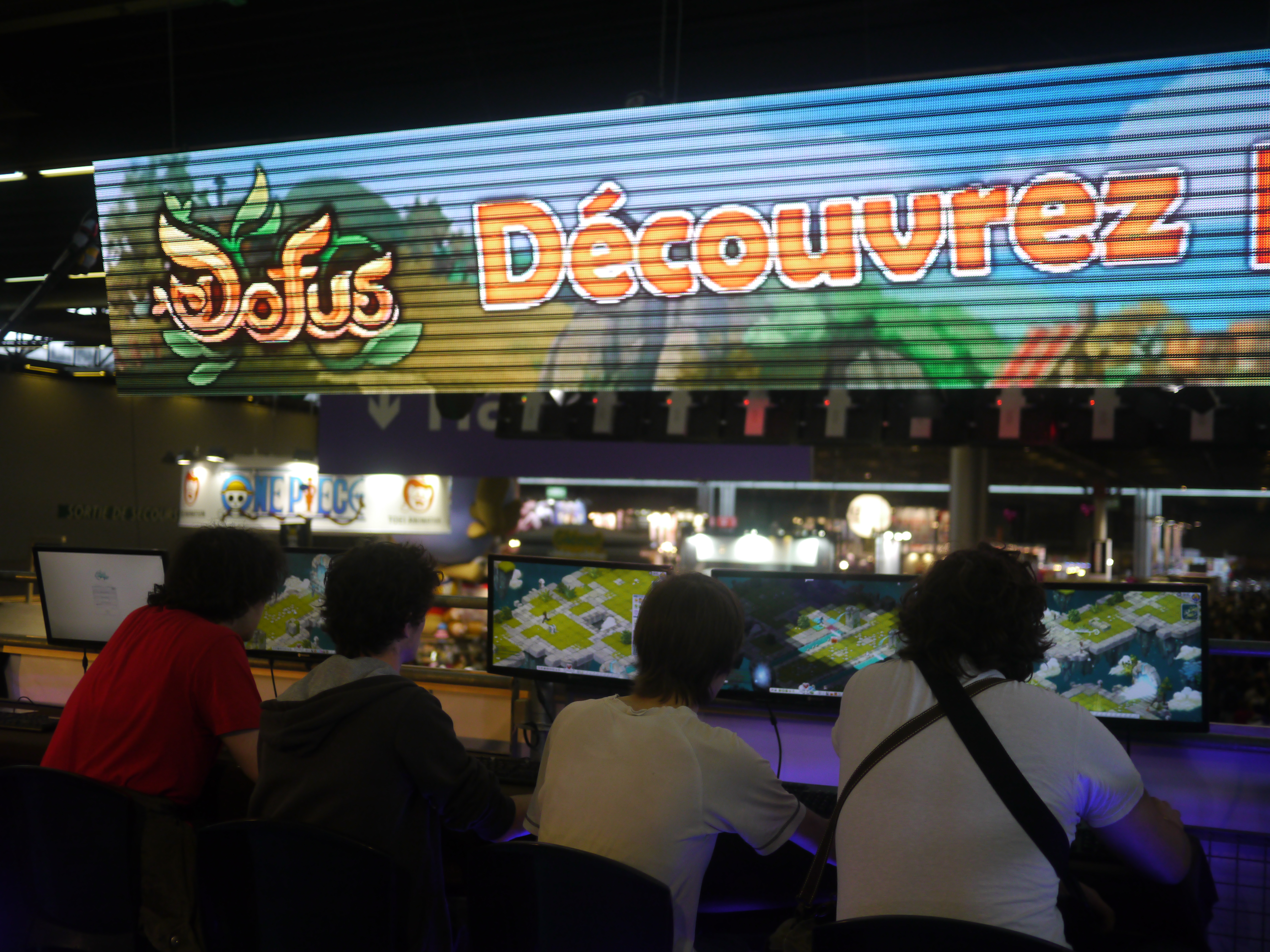 Japan Expo Festival, 13th impact